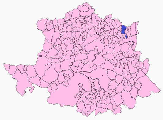 Losar de la Vera